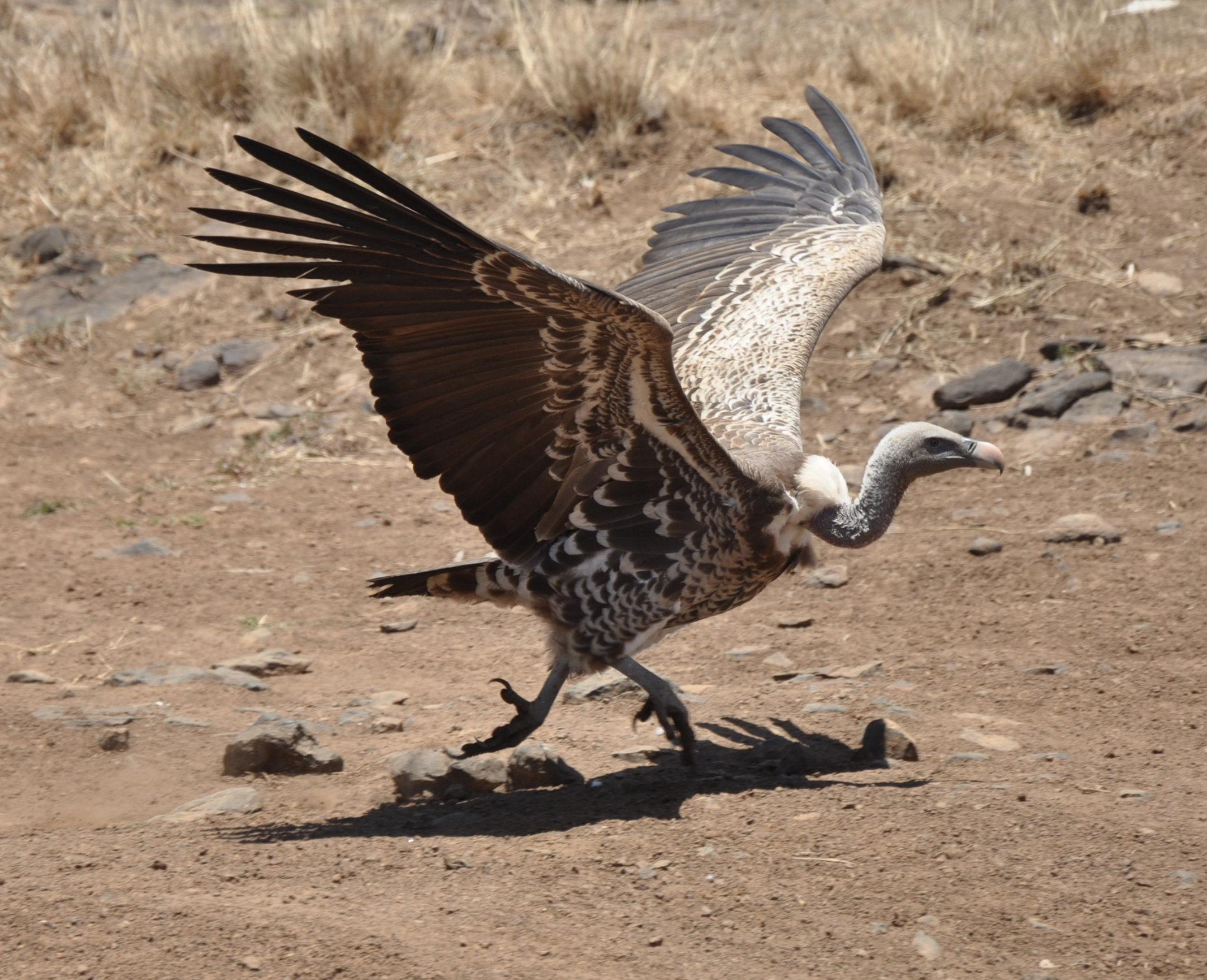 A Rüppell's Vulture at Nairobi National Park, Kenya. The shadow of the mid-day sun is directly under the vulture.